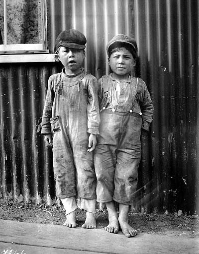 From John Cobb field notebook: Two native boys at Naknek . On verso of image: Left to right: Andrew Ansaknok and Trefon Angasan both born ca. 1911 (6-7 years old in 1917). They were first cousins. Subjects (LCSH): Eskimo children--Alaska--Naknek; Children--Alaska--Naknek; Boys--Alaska--Naknek; Boys--Clothing and dress--Alaska--Nanek